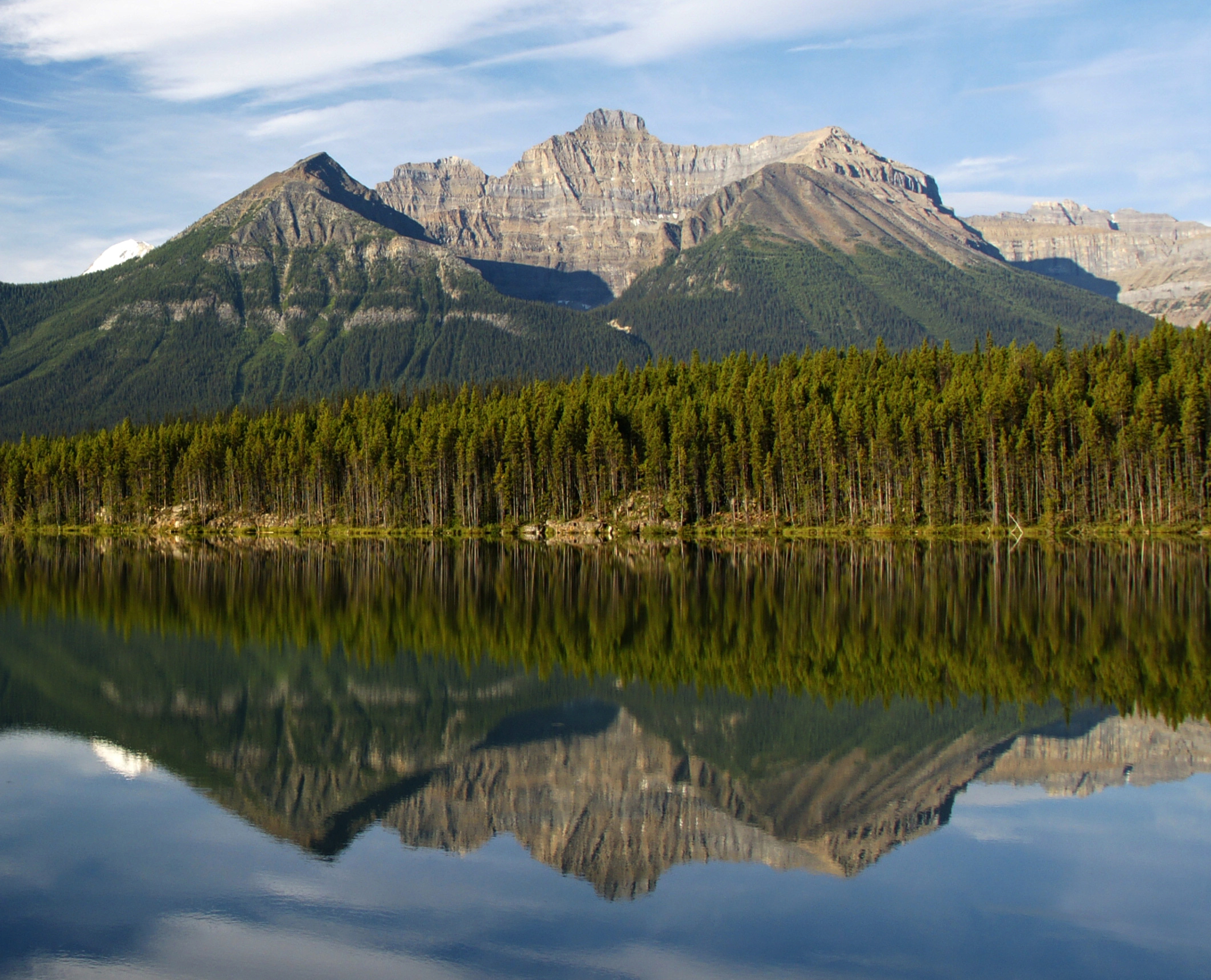 Mount Niblock reflected in Herbert Lake, Banff National Park , Alberta, Canada